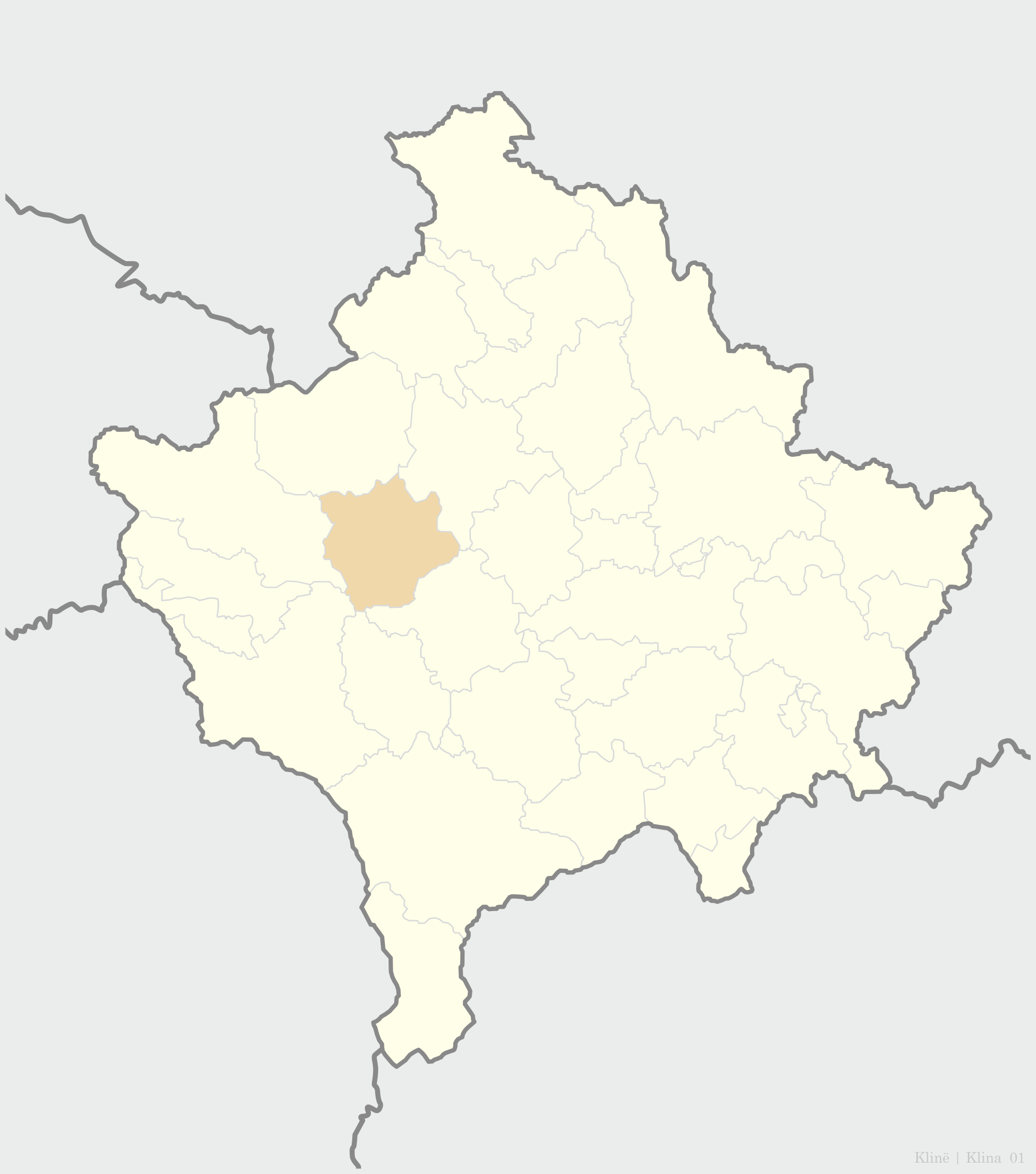 Municipality of Klina map